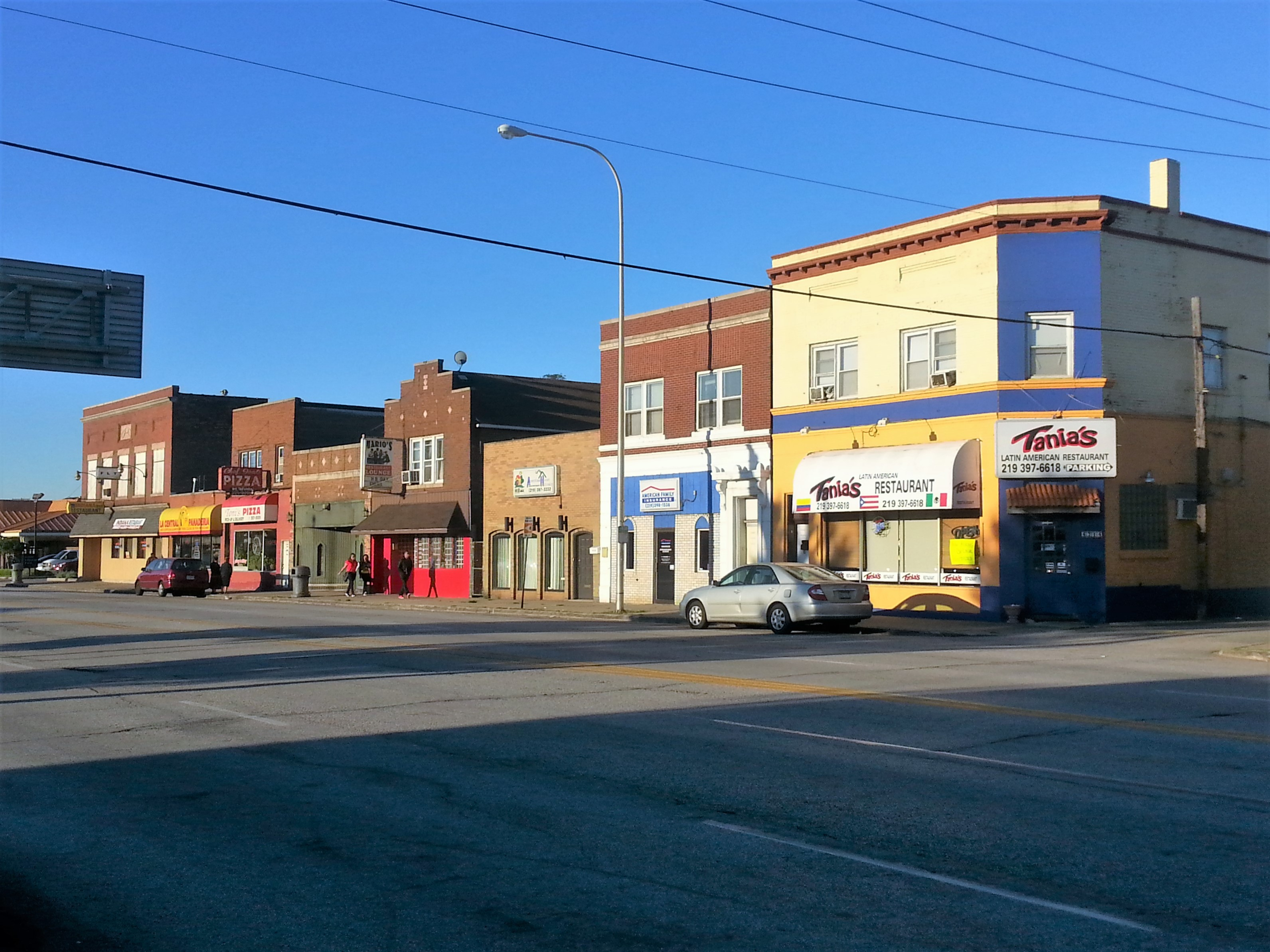 Indianapolis Blvd, looking northwest